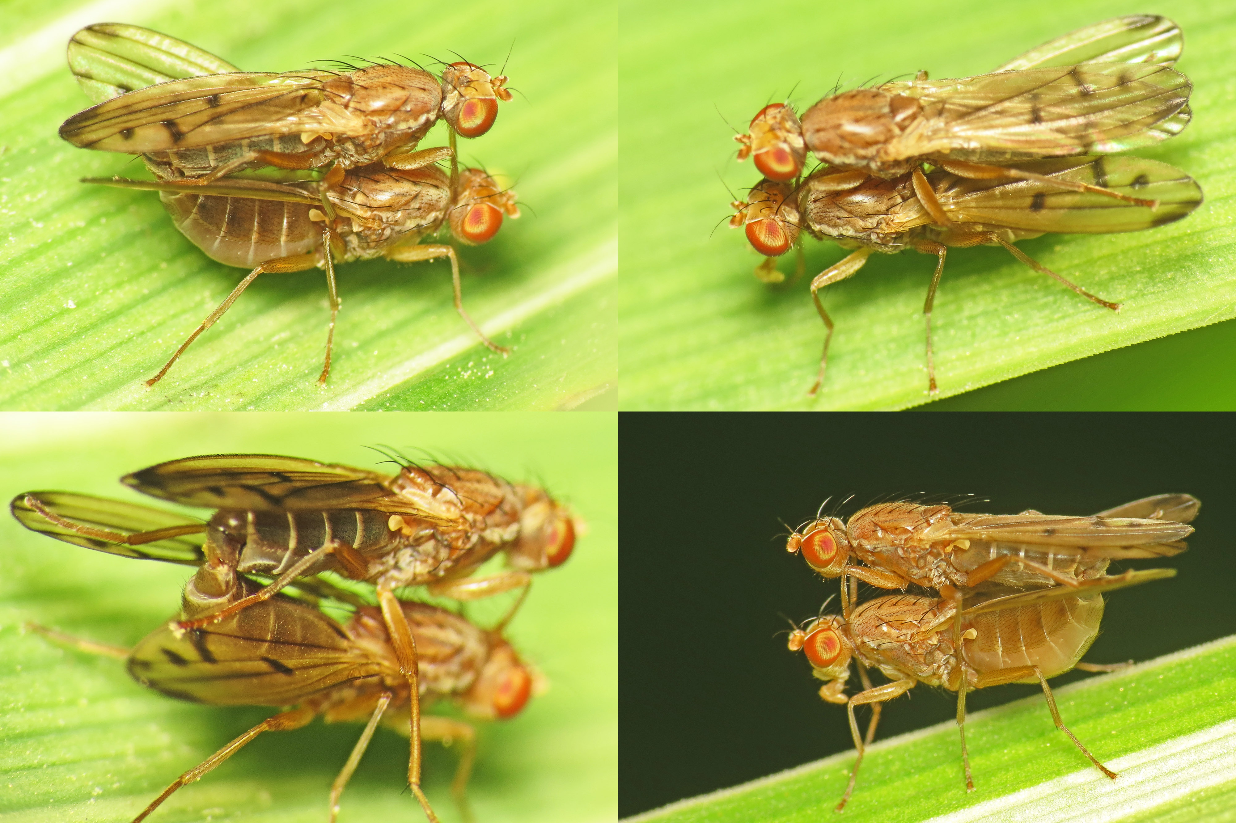 There were many of these flies on the leaves of the Flag Irises in the garden pond recently, here in Ipswich, East Suffolk, TM166450. These mating couples were photographed on 5-Oct-2014. ID confirmed by Jürgen Peters